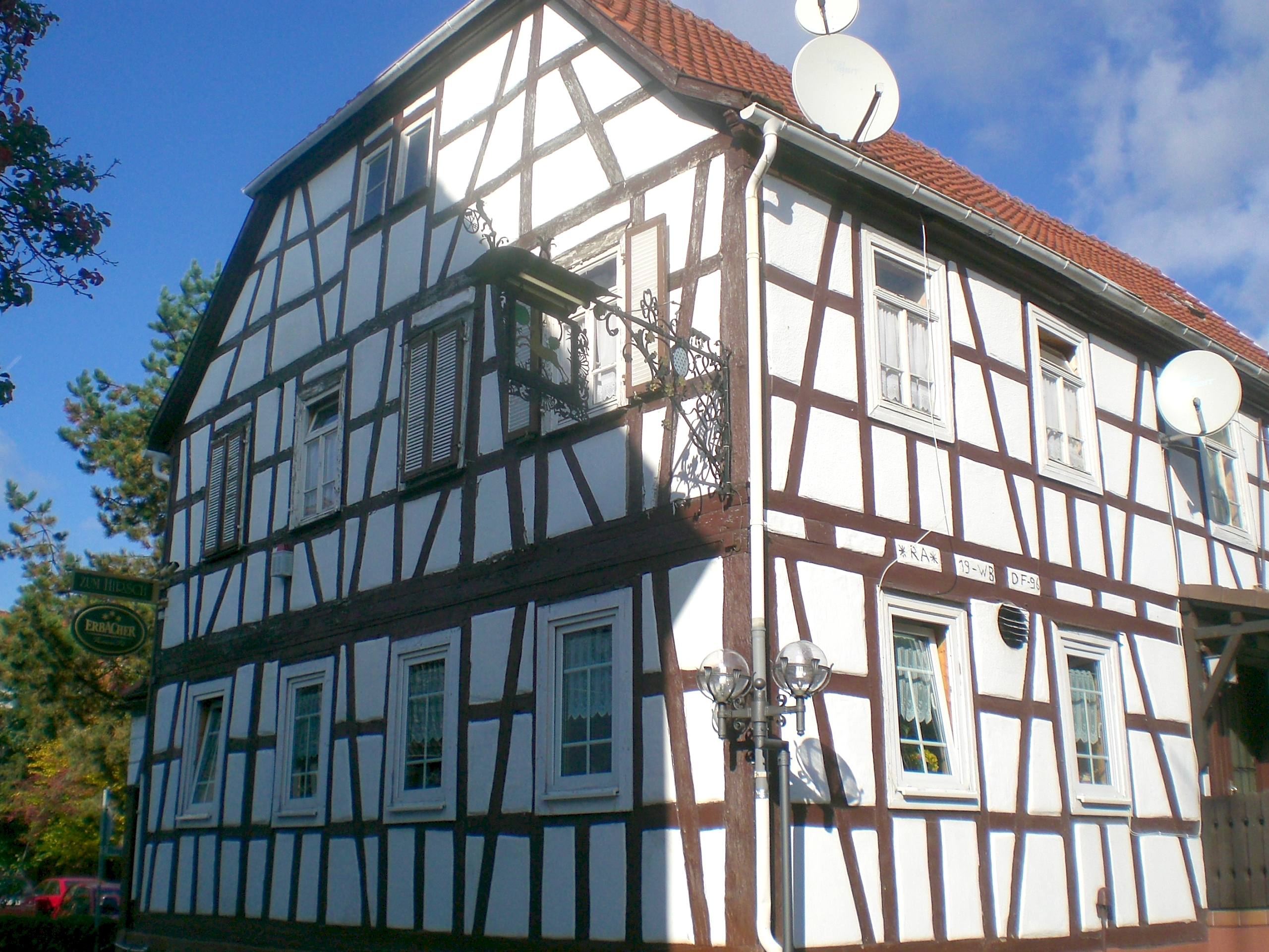 The historical inn "Hirsch" [deer] in Bad König, Germany